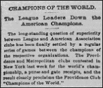 1884 newspaper clipping describing the first World Series